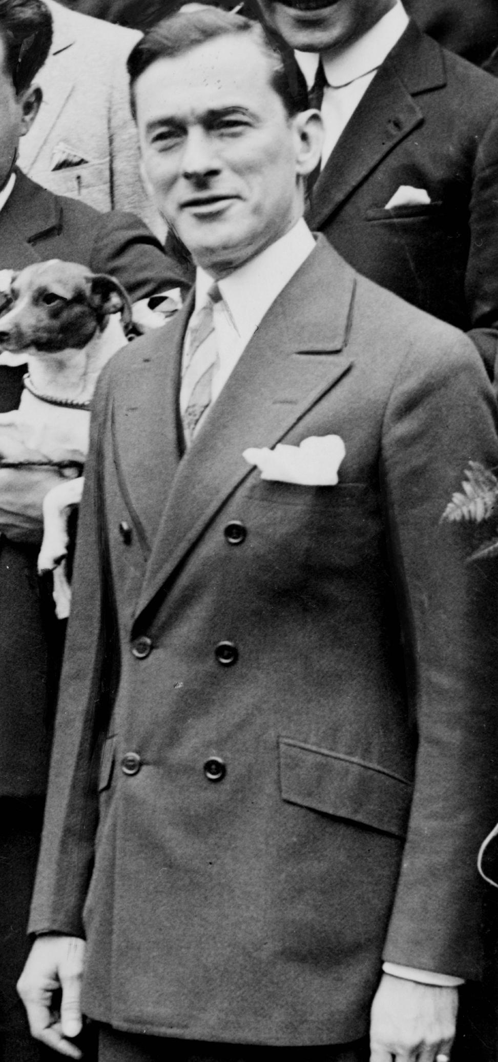 New York Mayor James Walker; cropped from photo of Walker with Umberto Nobile